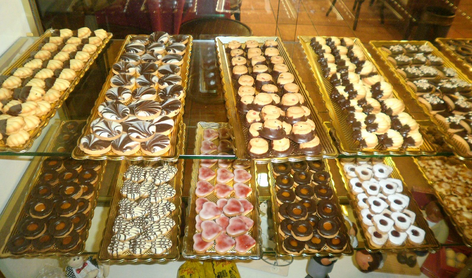 Repostería de Ávila (España)